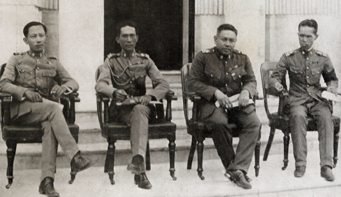 Siamese Four Musketeers (from left to right): Colonel Phraya Songsuradej, Colonel Phra Phrasasphithayayut, Colonel Phraya Phaholpholphayuhasena and Colonel Phraya Ritthiakhaney